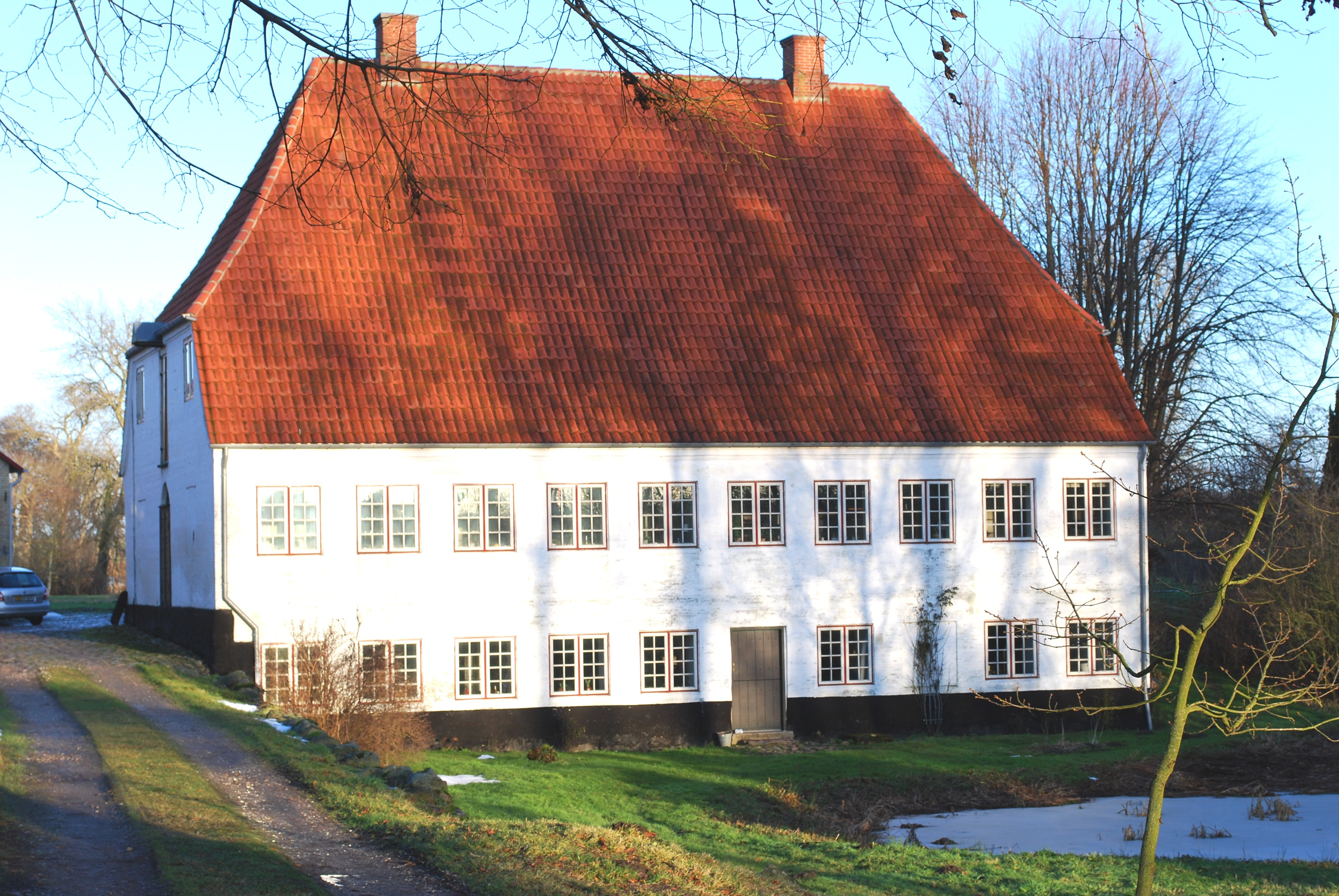 Sandbjerggård, Sandbjerg, Sundeved, Denmark